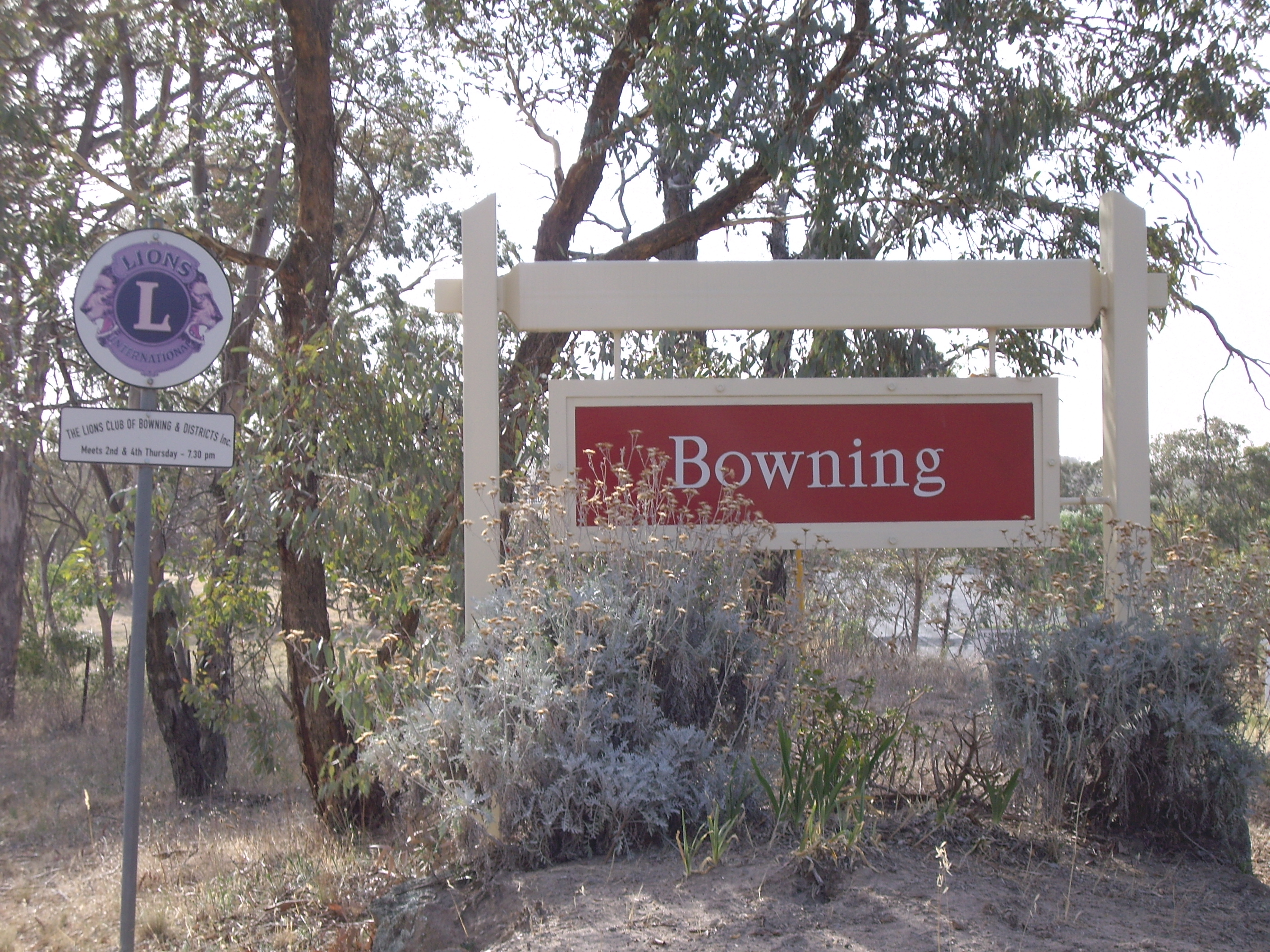 Photograph taken by VirtualSteve. Full catalogue of all my images uploaded to Wikipedia available here Images